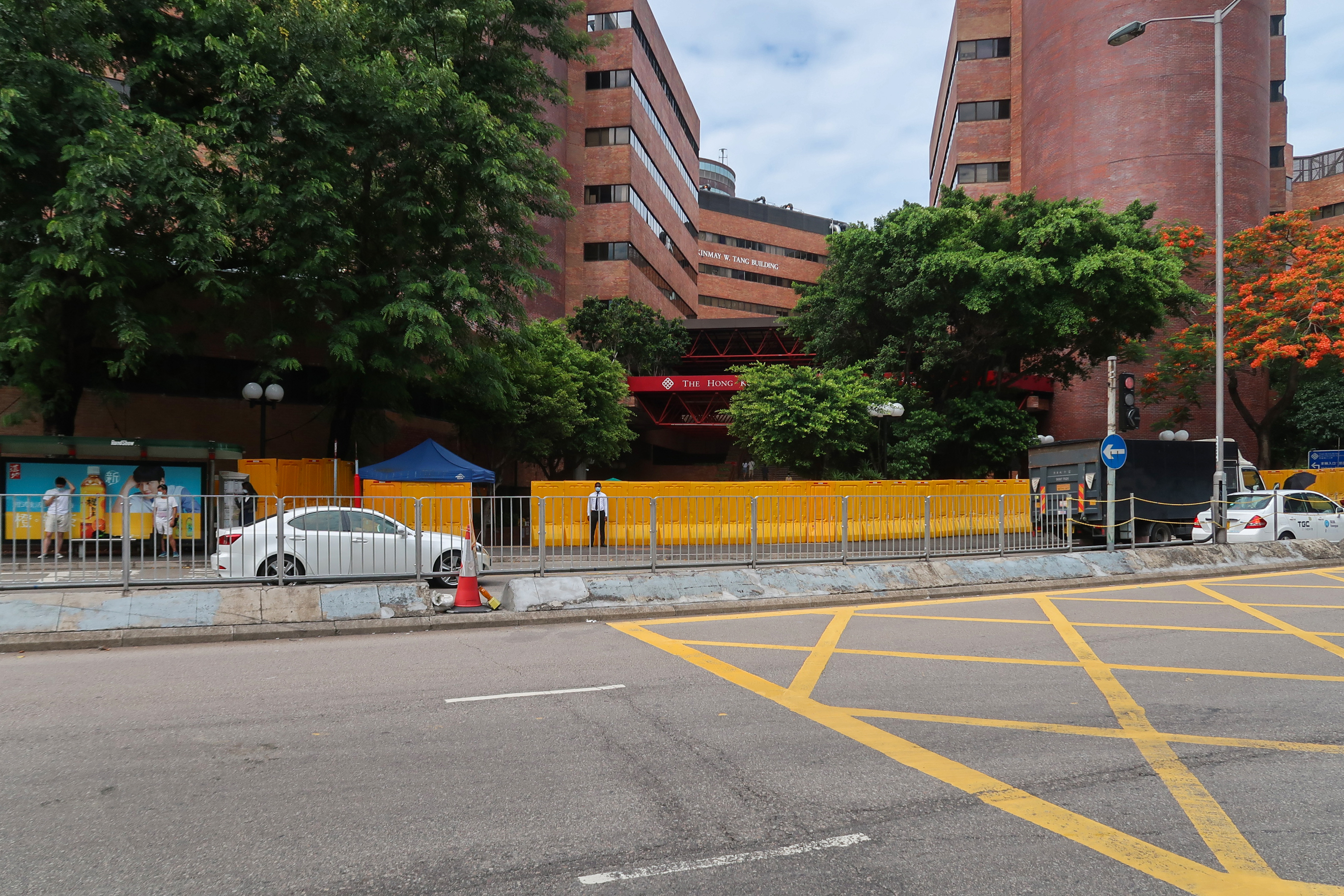 The Hong Kong Polytechnic University Entrance blocked